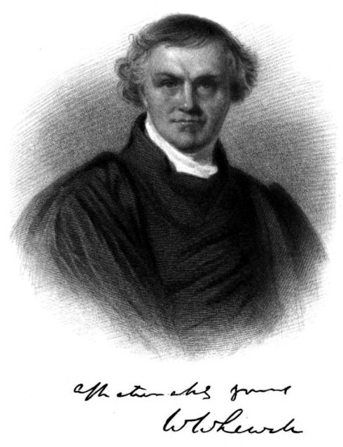 Engraving of a portrait of William Whewell, the English polymath; appears as the frontispiece of The Life and Selections from the Correspondence of William Whewell (1881)